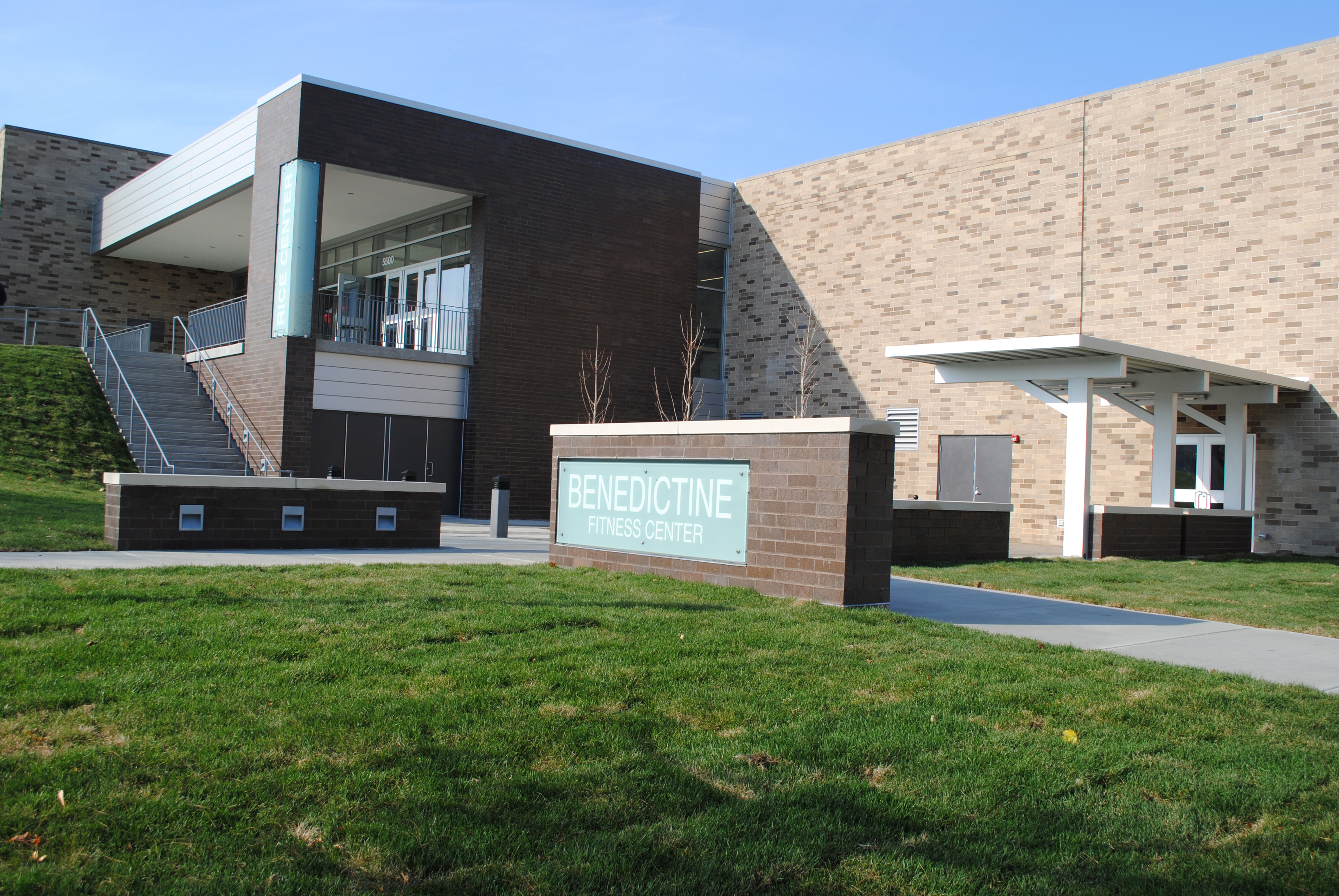 Dan and Ada Rice Athletic Center is the main indoor athletic facility on the Benedictine campus in Lisle, Illinois. It serves as the home venue for basketball and volleyball and also holds the offices for the athletic department. The facility also includes the student fitness center.